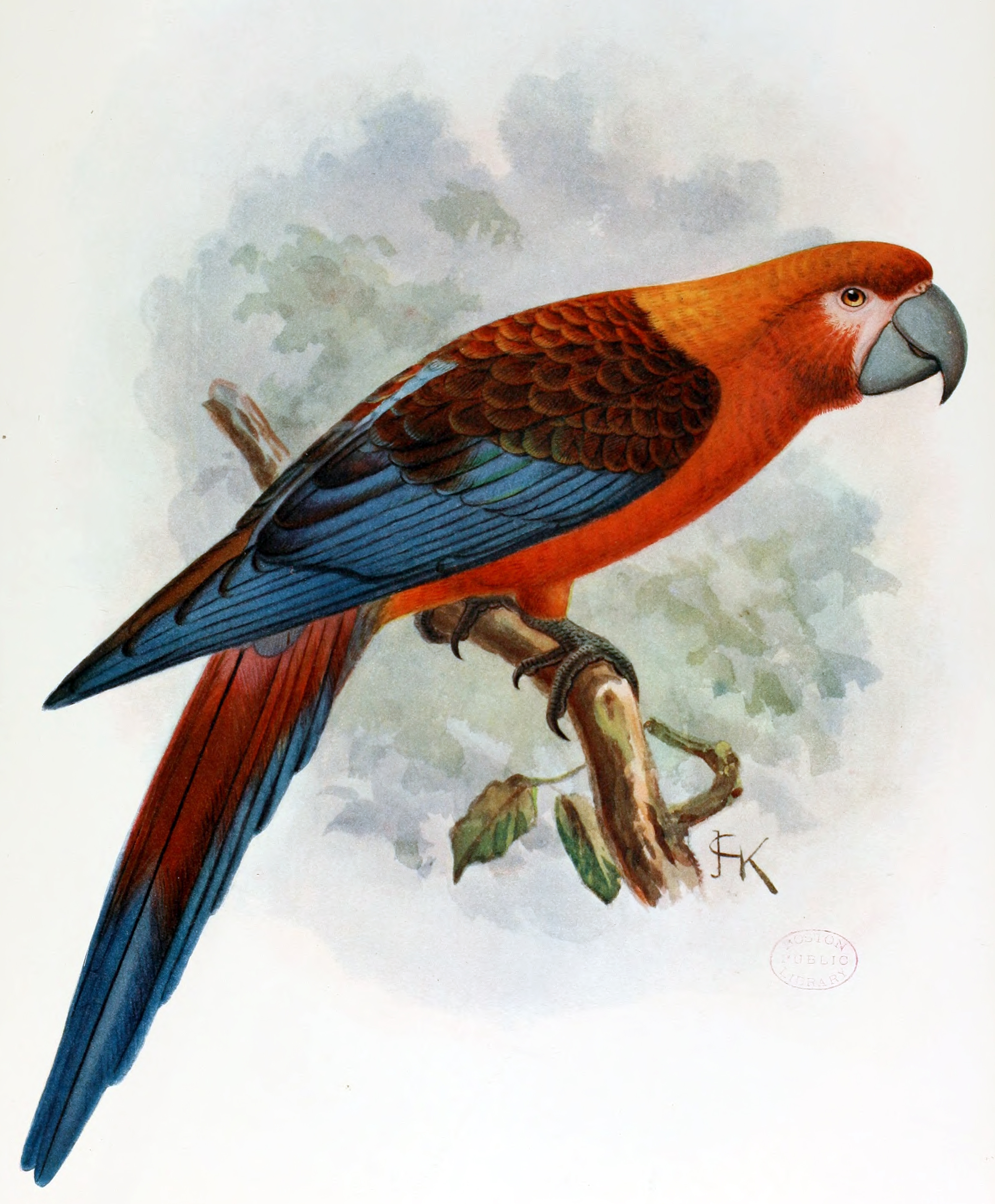 Cuban Macaw. Eleven-Thirteenths Natural Size—from specimen in Liverpool Museum